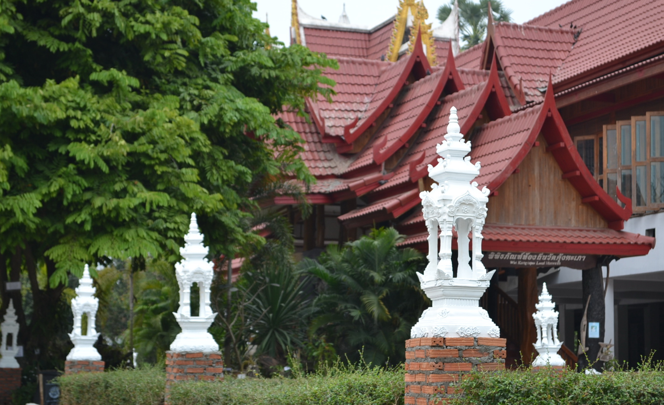 Wat Kungtapao Local Museum. at Wat Khung Taphao, Ban Khung Taphao, Khung Taphao subdistrict, Mueang Uttaradit, Uttaradit Province, Thailand.) on December 2, 2012.